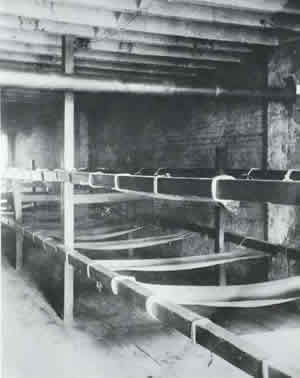 "Bunks in a Seven-Cent Lodging-House, Pell Street"